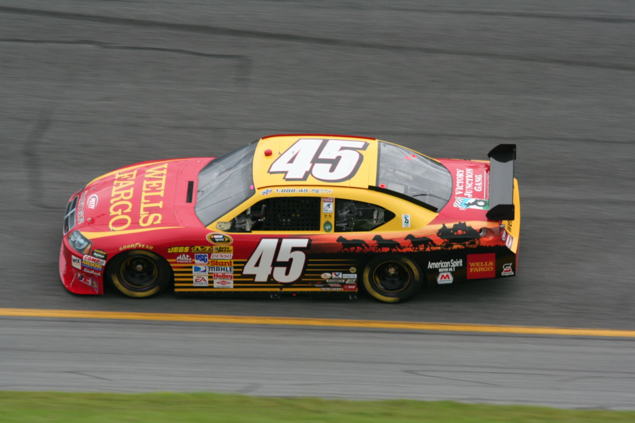 Shot by "The Daredevil" at Daytona during Speedweeks 2008